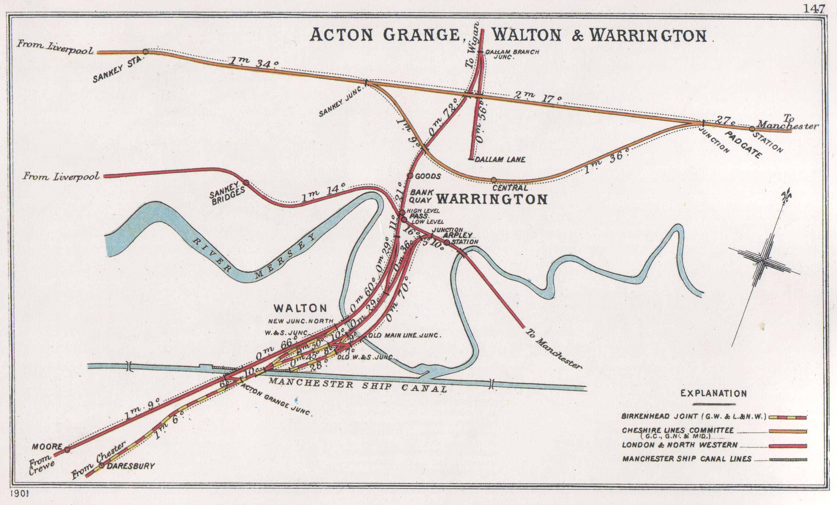 Railway Junctions in Acton Grange, Walton & Warrington pre grouping